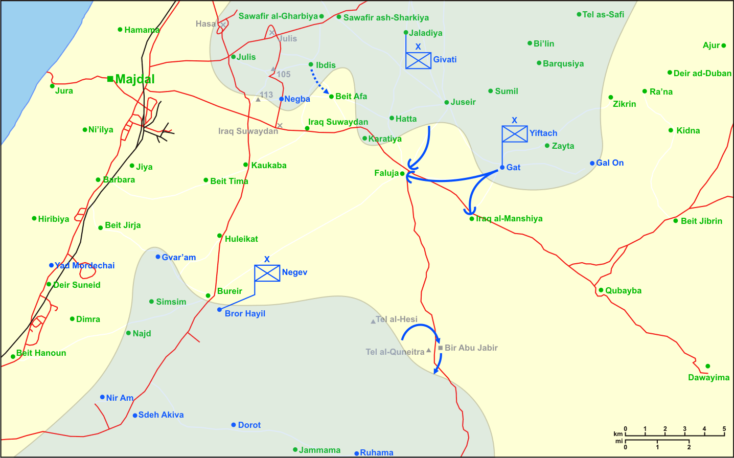 Israel Defense Forces-initiated Operation GYS 1, July 27, 1948.